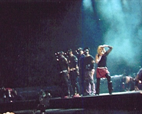 Madonna performing "Impressive Instant" on the Drowned World tour